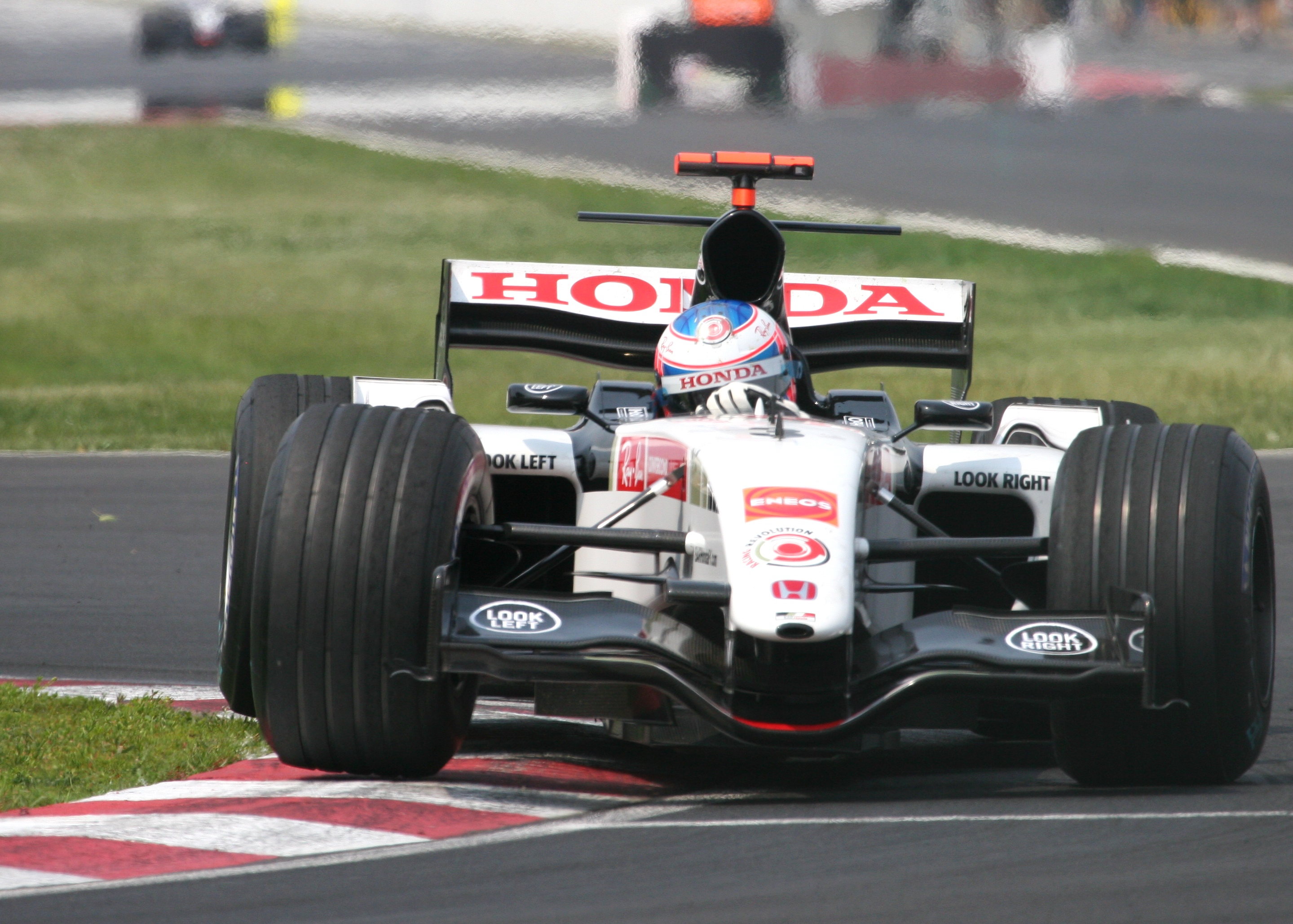 Jenson Button driving for British American Racing at the 2005 Canadian Grand Prix.